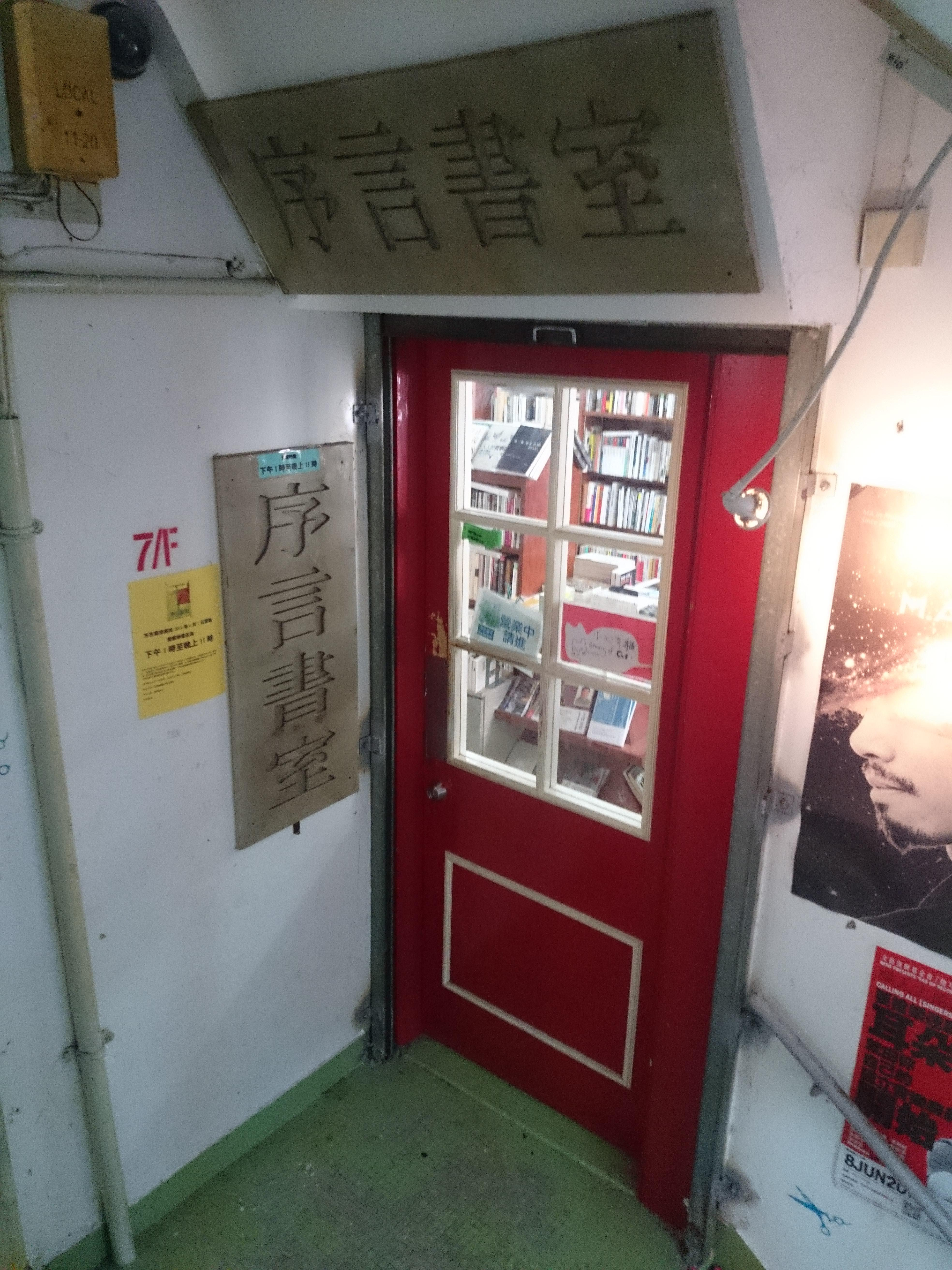 The Facade of Hong Kong Reader Bookstore